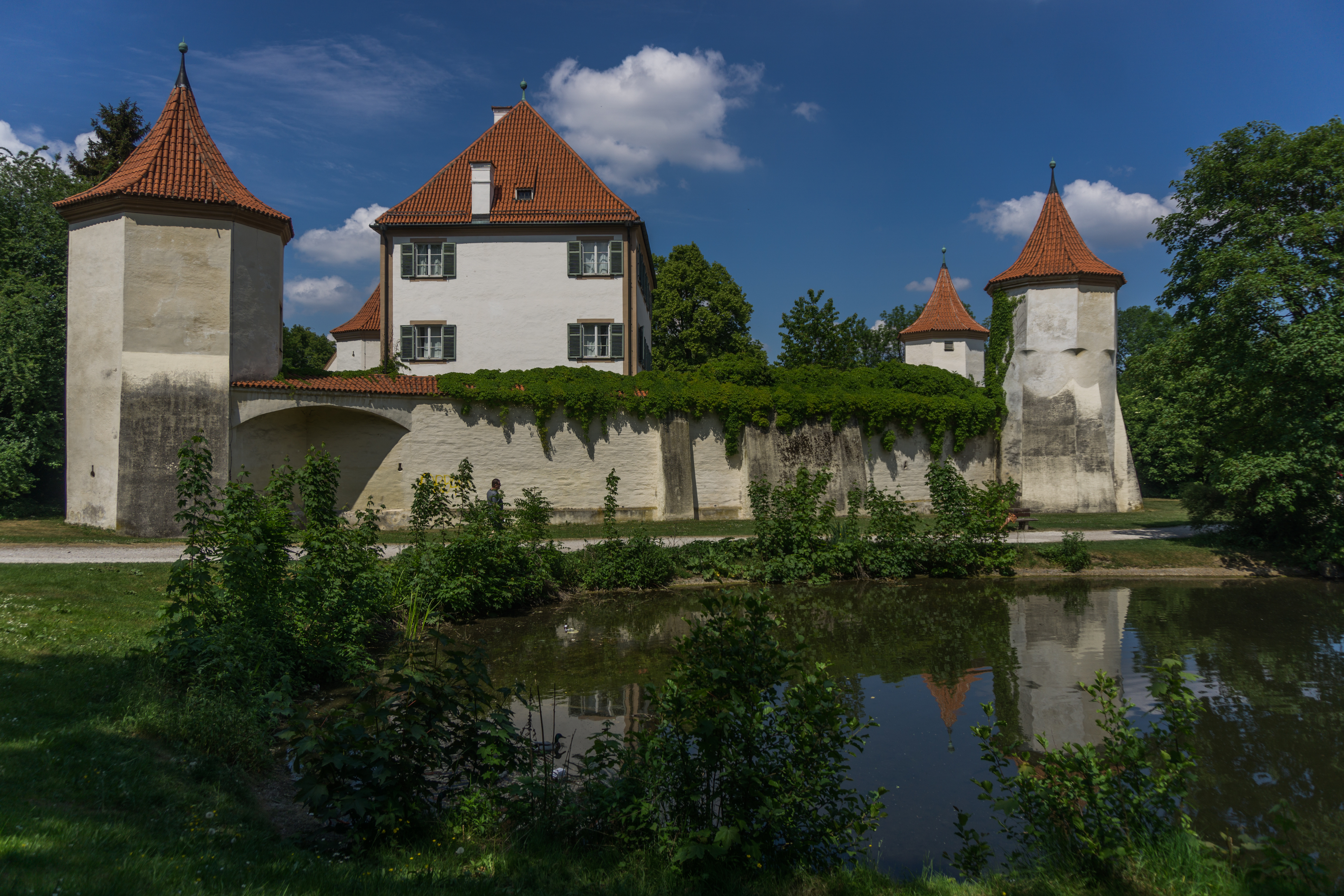 Castle Blutenburg in Munich, GermanyThis is a photograph of an architectural monument.